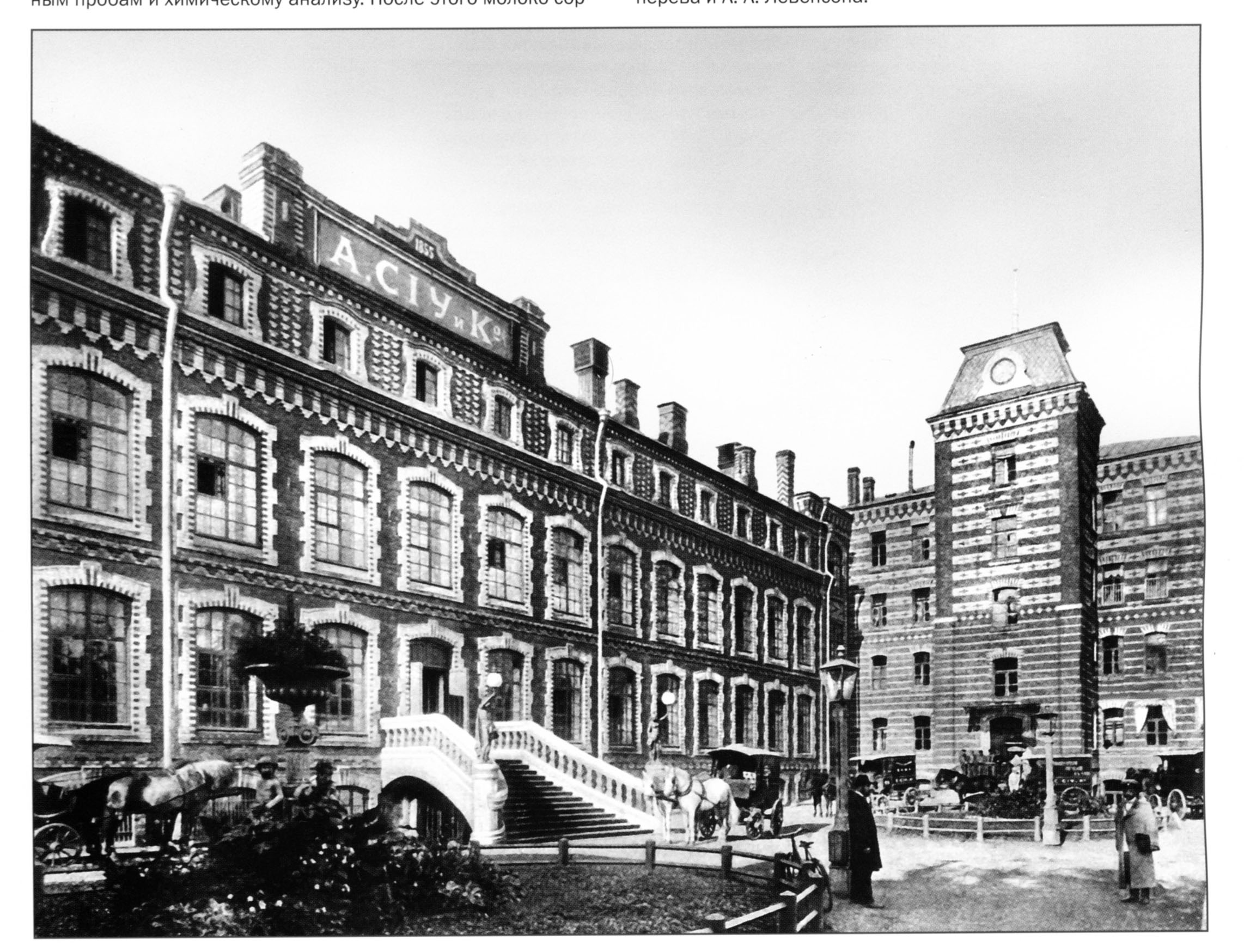 Sioux Factories, Moscow, 1880s-1890s